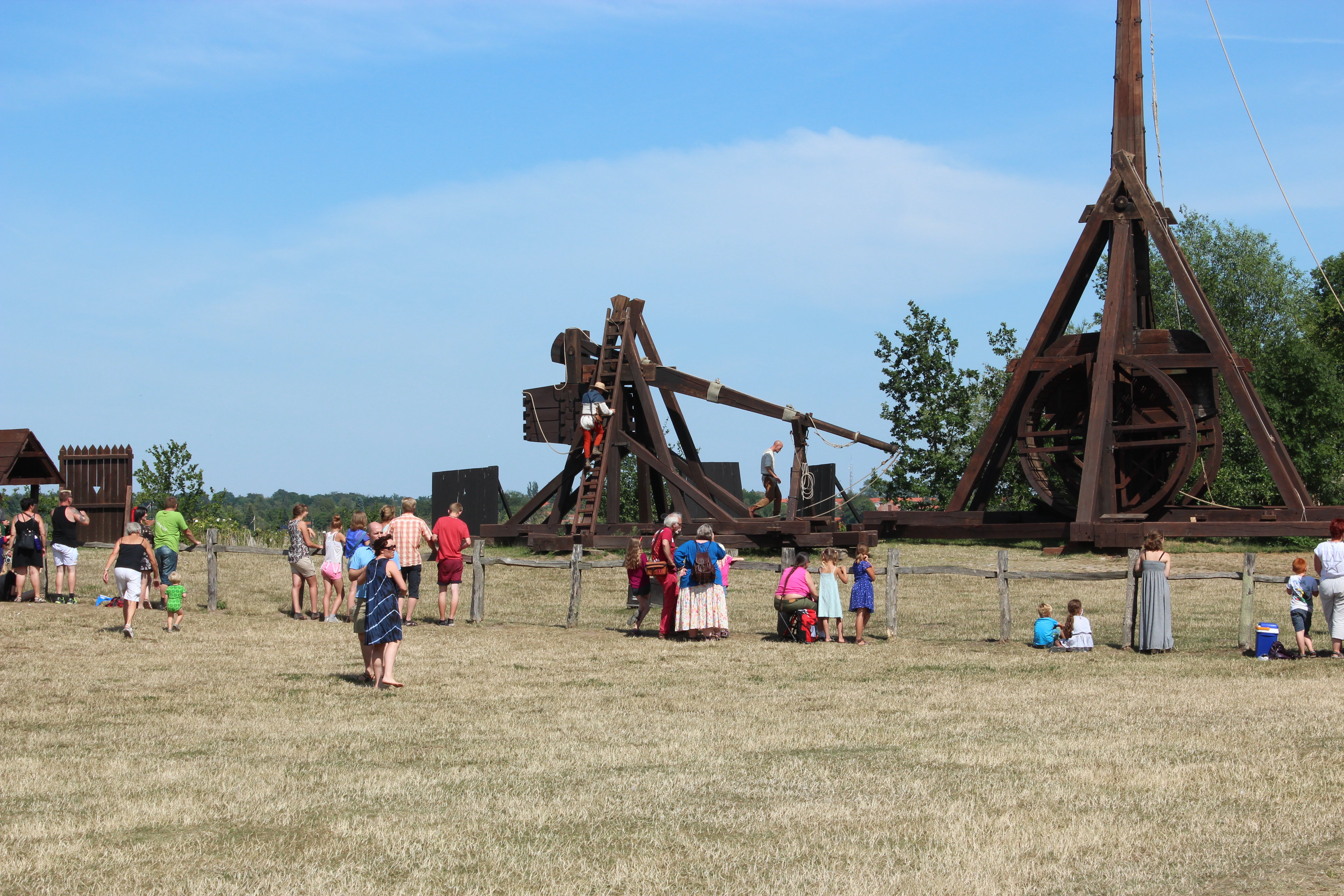 Trebuchets at Middelaldercentret summer 2014. Small one ready for shooting.